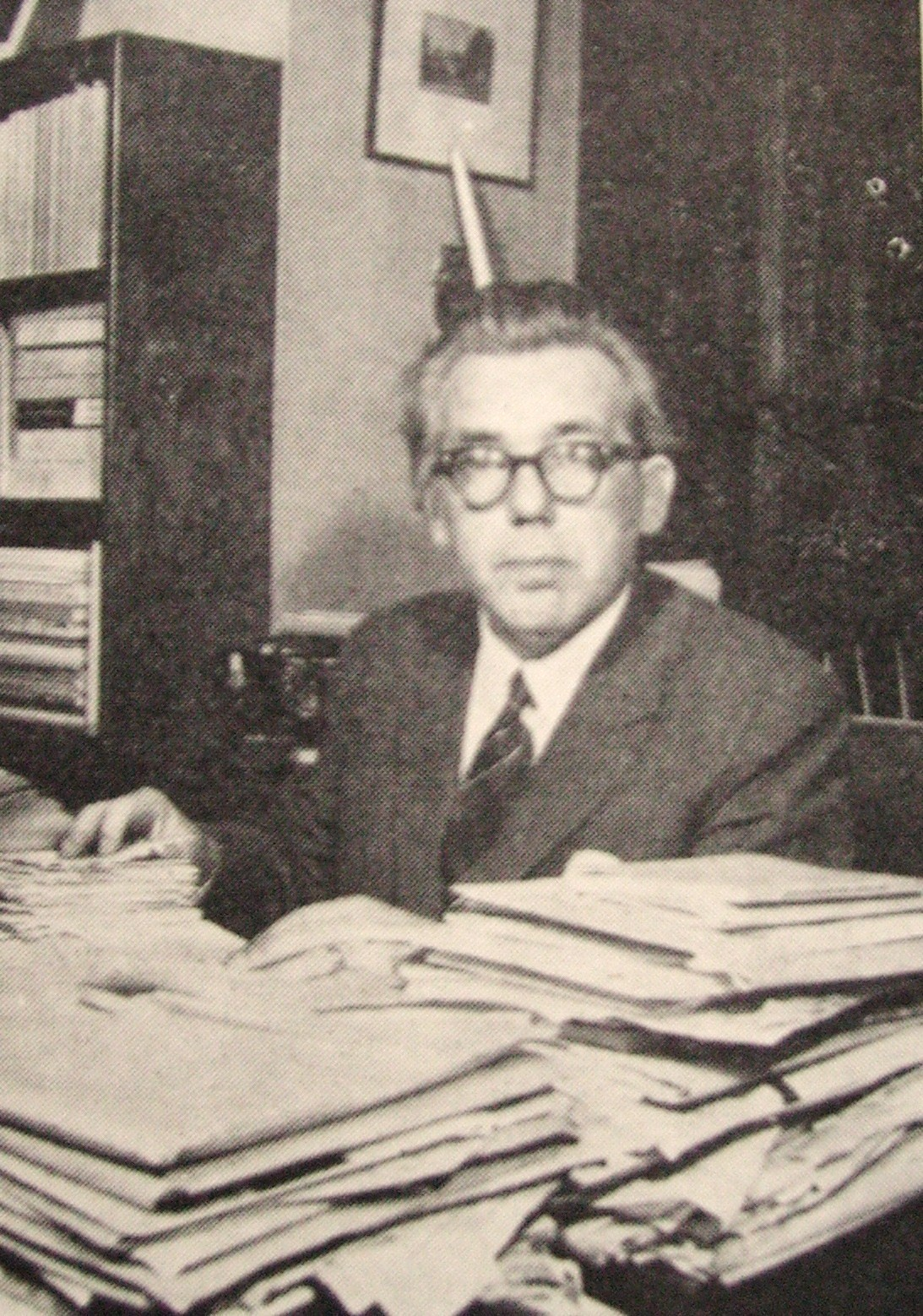 Picture of Elis Håstad, Swedsih professor and politician